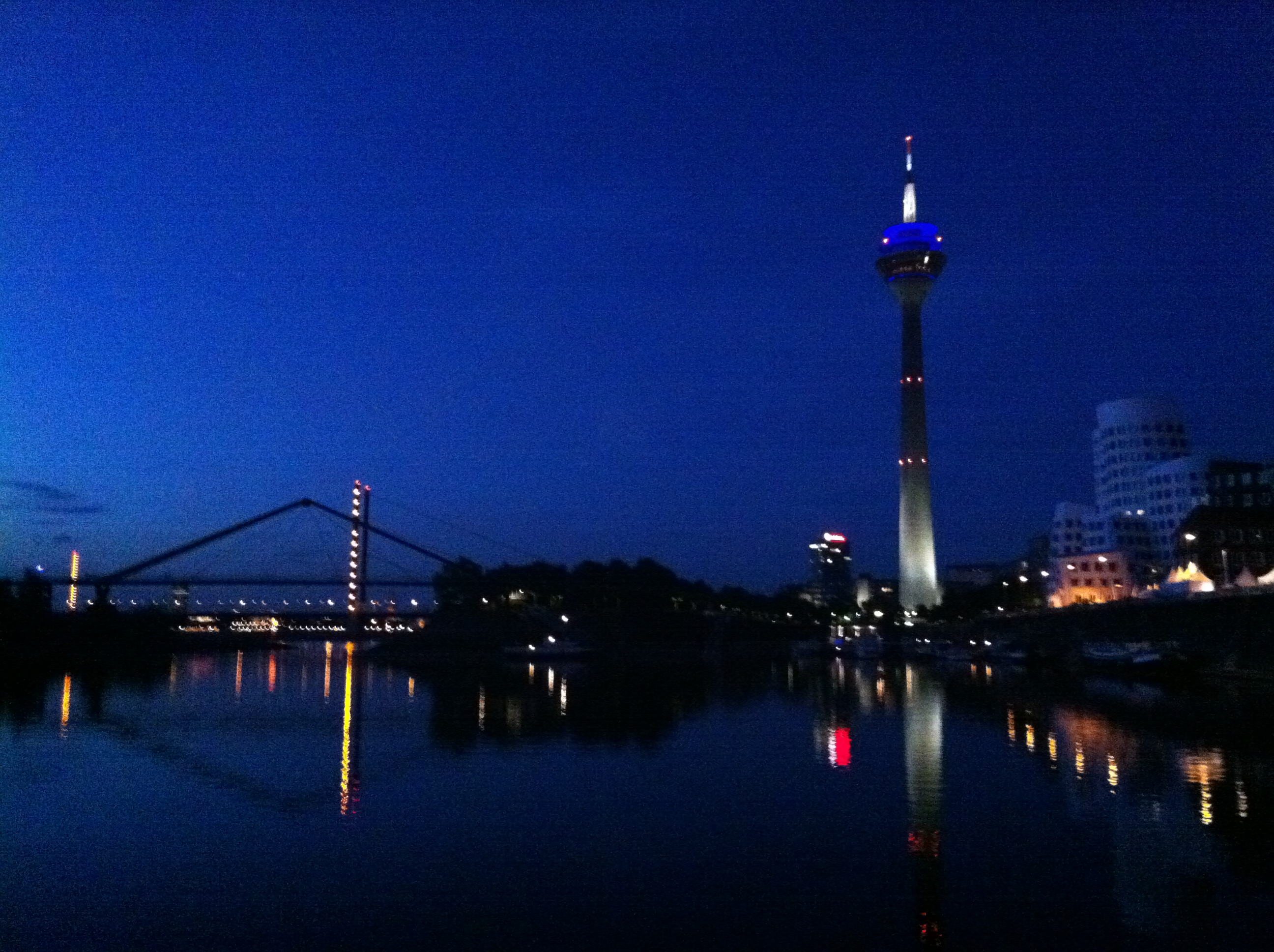 Communicating the Museum conference 2011, with a Wikipedia Lounge